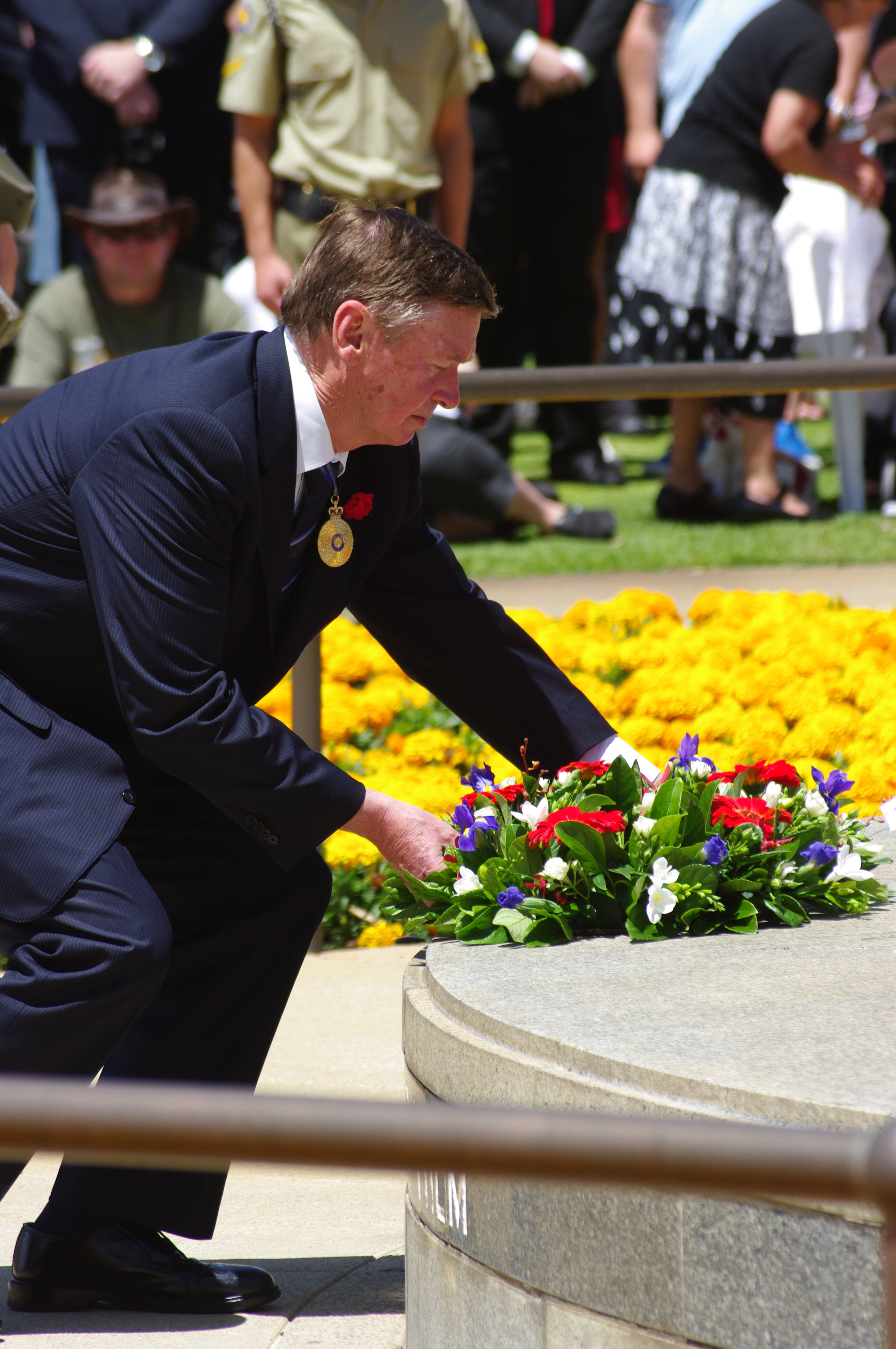 Remembrance Day service November 11 2011 Kings Park, Western Australia Malcolm McCusker laying a wreath